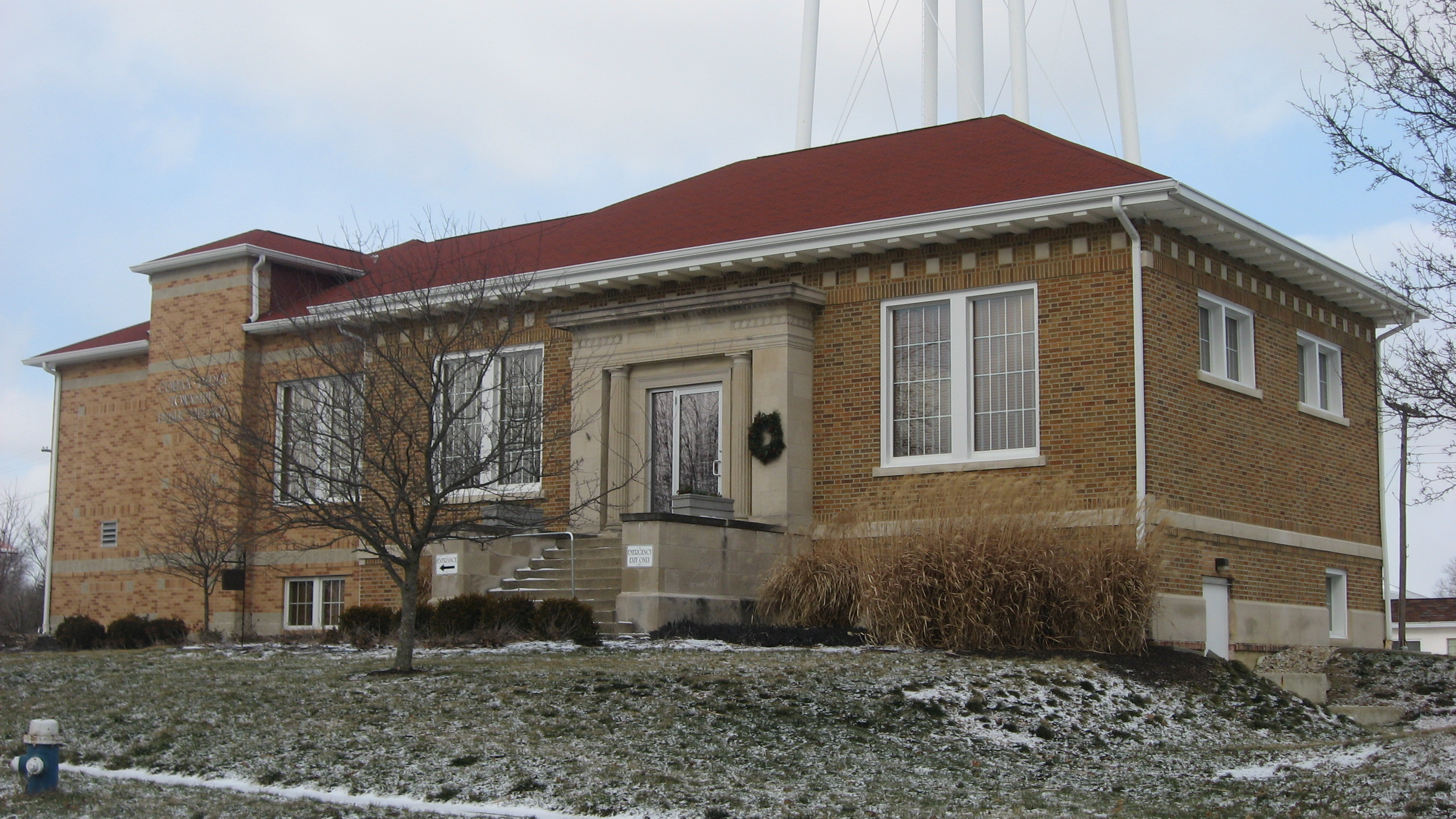 Front and southern end of the Colfax Carnegie Library, located at 207 S. Clark Street in Colfax, Indiana, United States. Built in 1917, it is listed on the National Register of Historic Places.